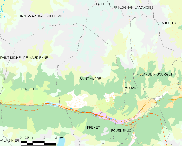 Map of French municipality